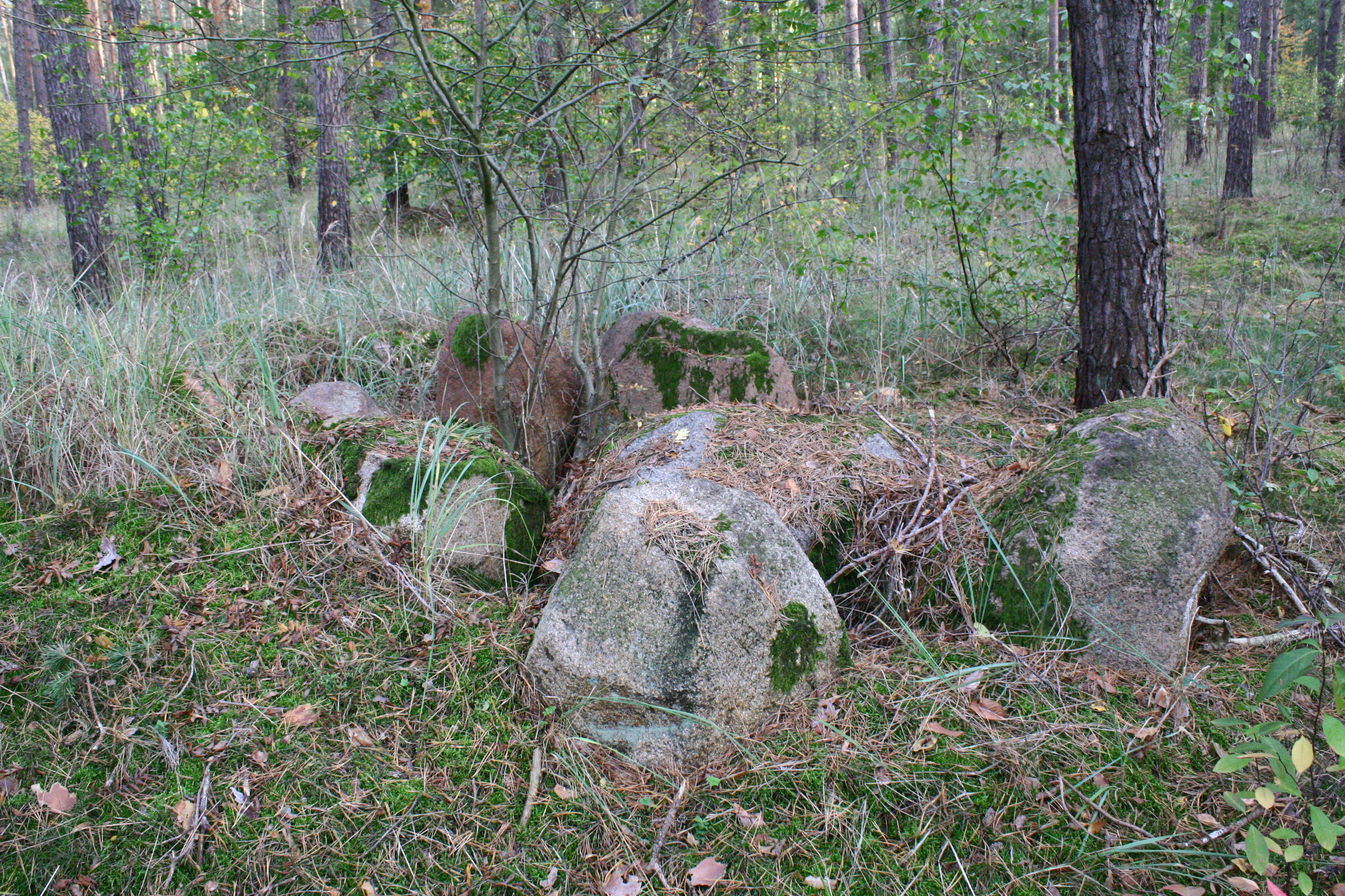 Megalithic tomb Haldensleben II 18